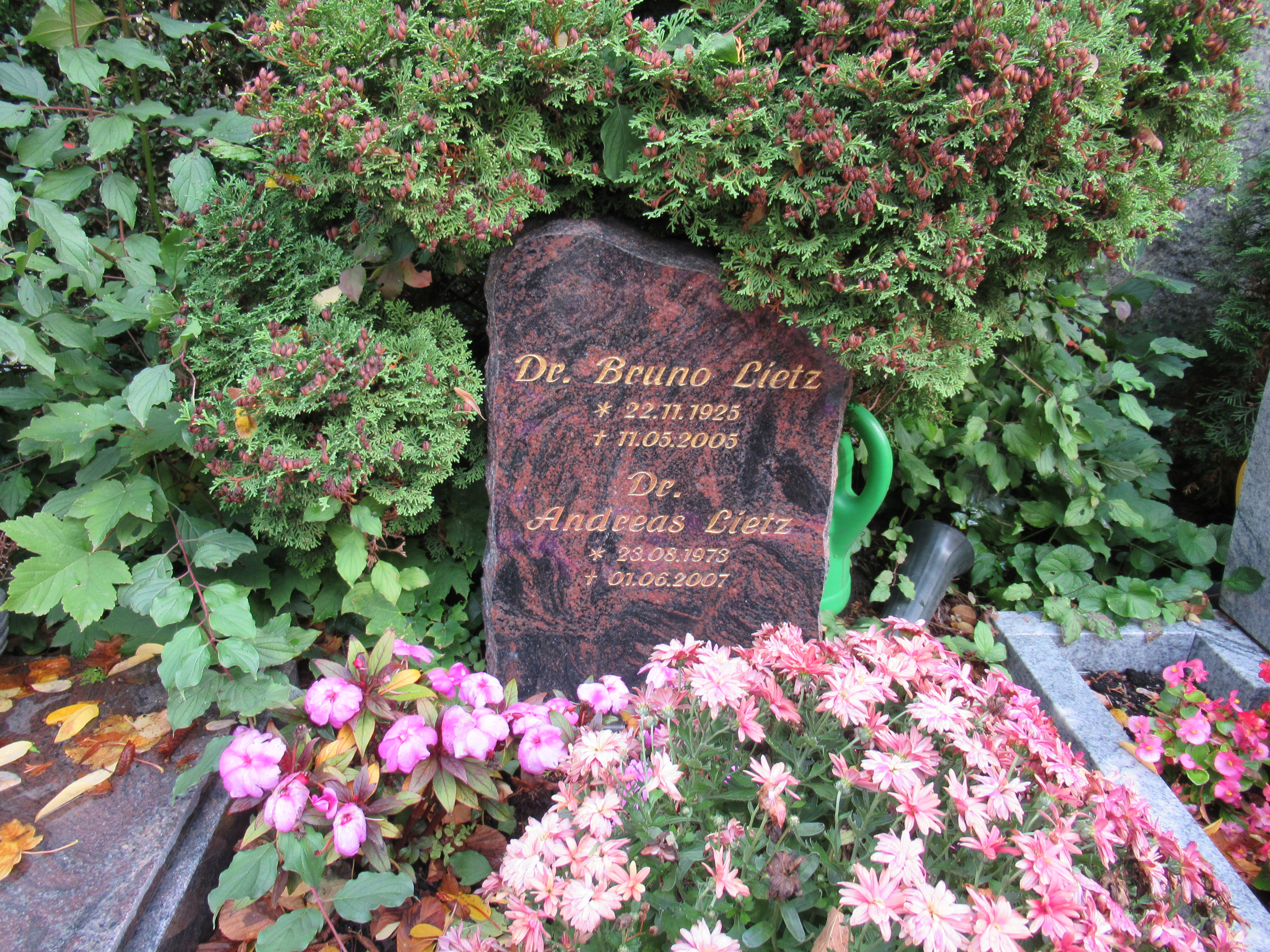 Grave of German politician Bruno Lietz at Friedhof Kaulsdorf in Berlin-Kaulsdorf